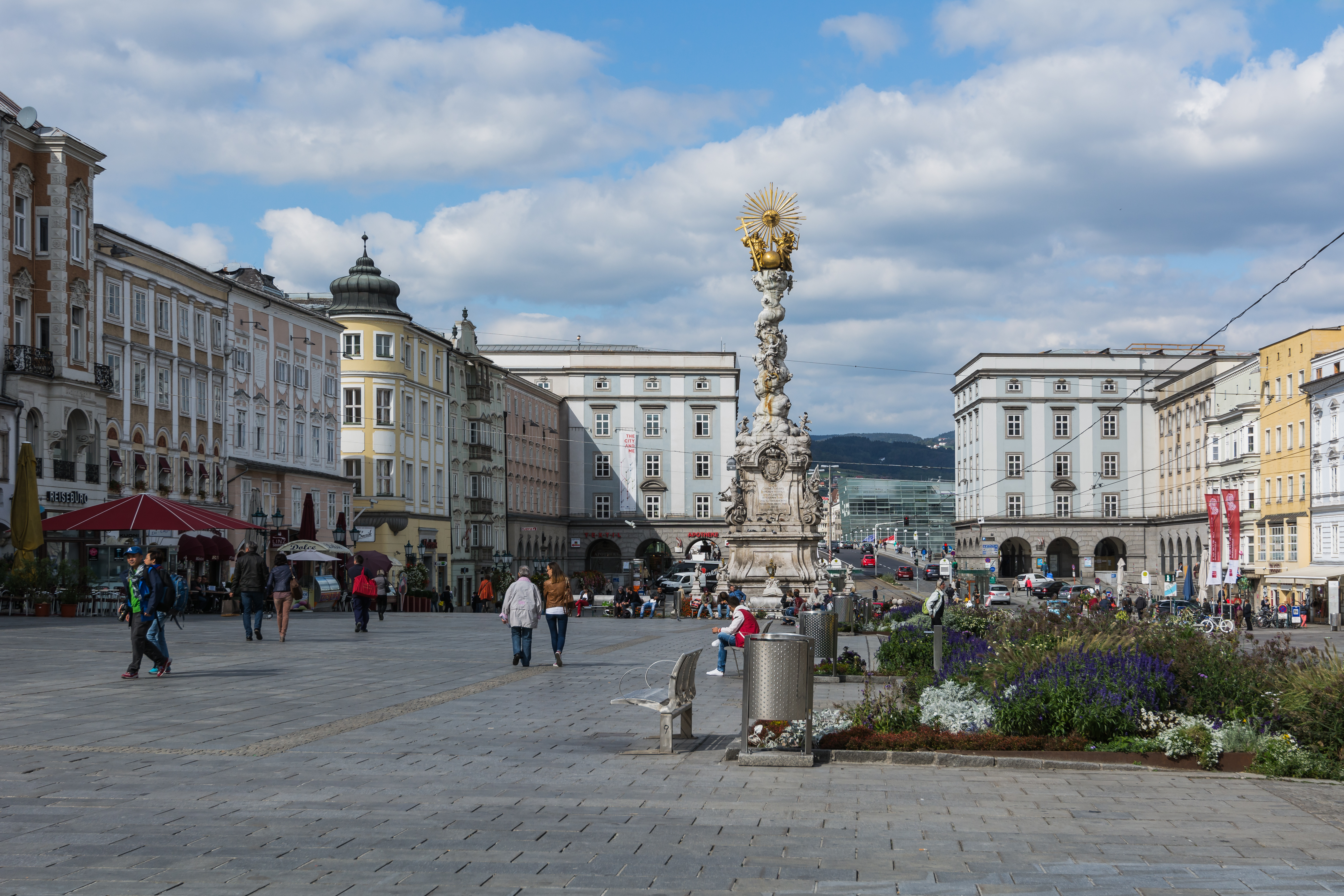 The Trinity Column in the main square of Linz was finished in 1723 but it was inaugurated in 1728 only after an investigation by the government because of the tremendous cost of erection.